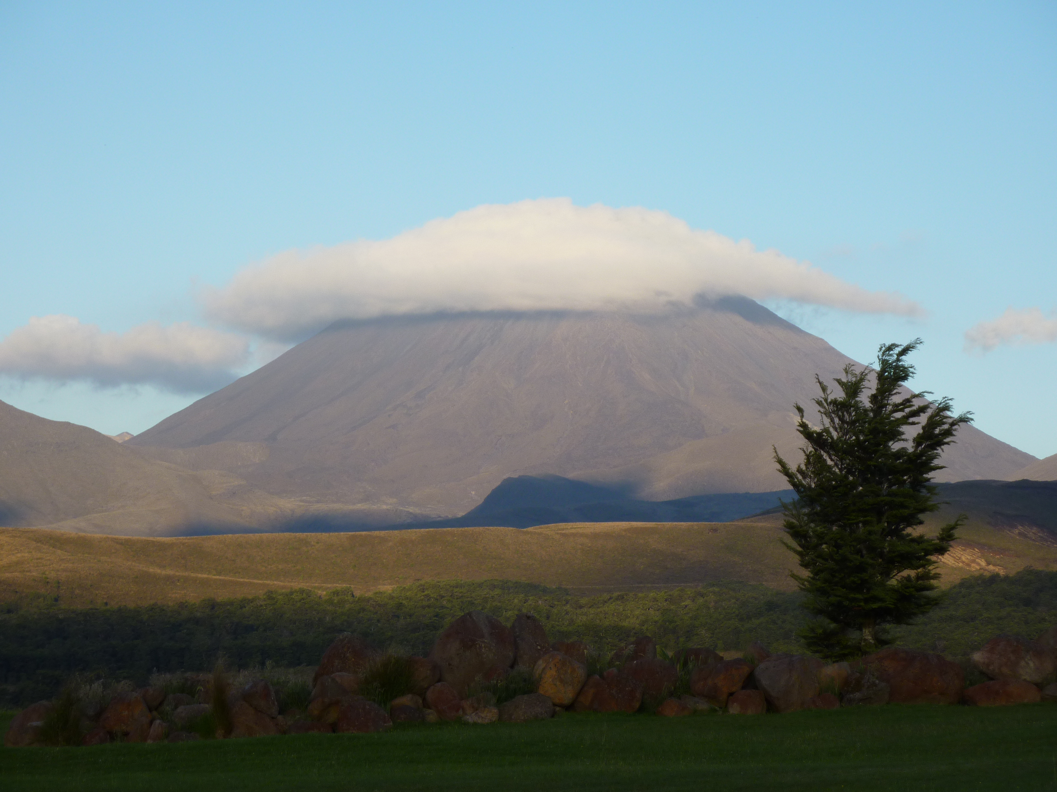 Mount Ngauruhoe aka Mount Doom n the lord of the rings movies, this is a very regularly shaped active volcano in tongariro national park. the famous "tongariro crossing" hike goes past it but not to the top. the climb isn't hard, but it's a long way up a pretty steep slope of loose ashes and rubble; not the most enjoyable terrain to hike on.